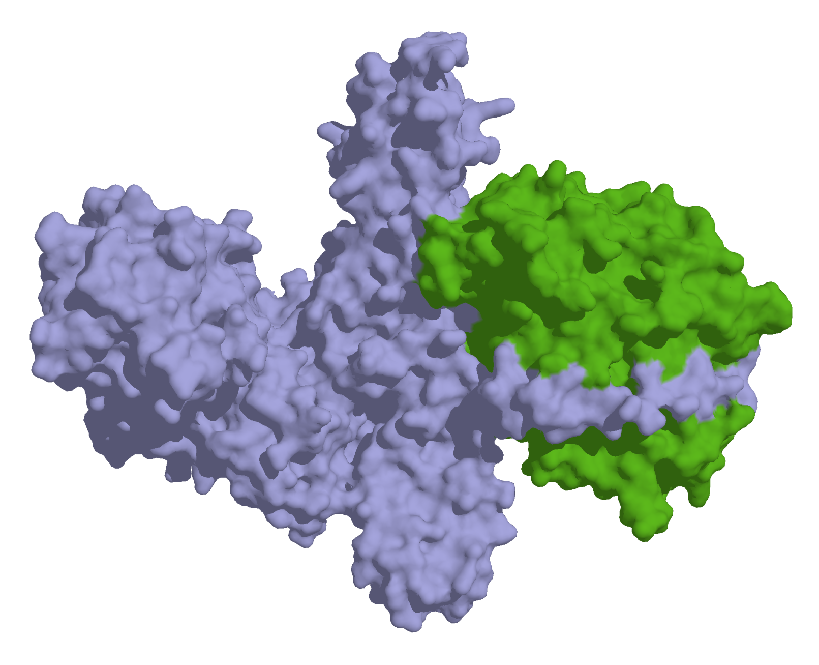 3d surface model of botulinum neurotoxin serotype A (botox) from PDB 3BTA. Long chain is blue, short is green. Ref.: Lacy, D.B., Tepp, W., Cohen, A.C., DasGupta, B.R., Stevens, R.C. (1998) Crystal structure of botulinum neurotoxin type A and implications for toxicity. Nat.Struct.Biol. 5: 898-902 PMID 9783750